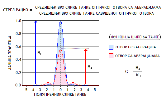 СТРЕЛ РАЦИО